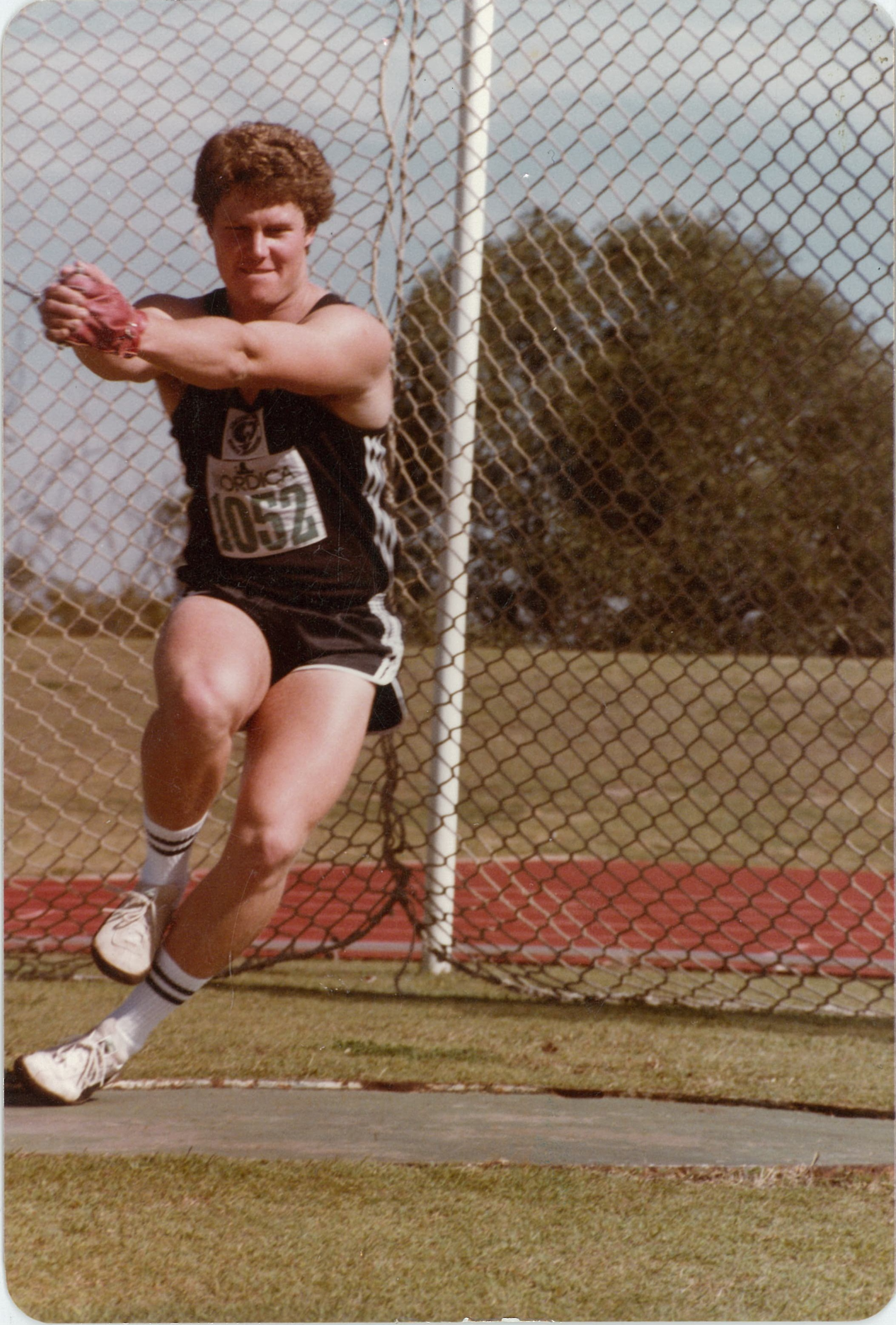 Three-time Intervarsity Hammer Throw Champion Thomas Murrell of Adelaide University Athletics Club